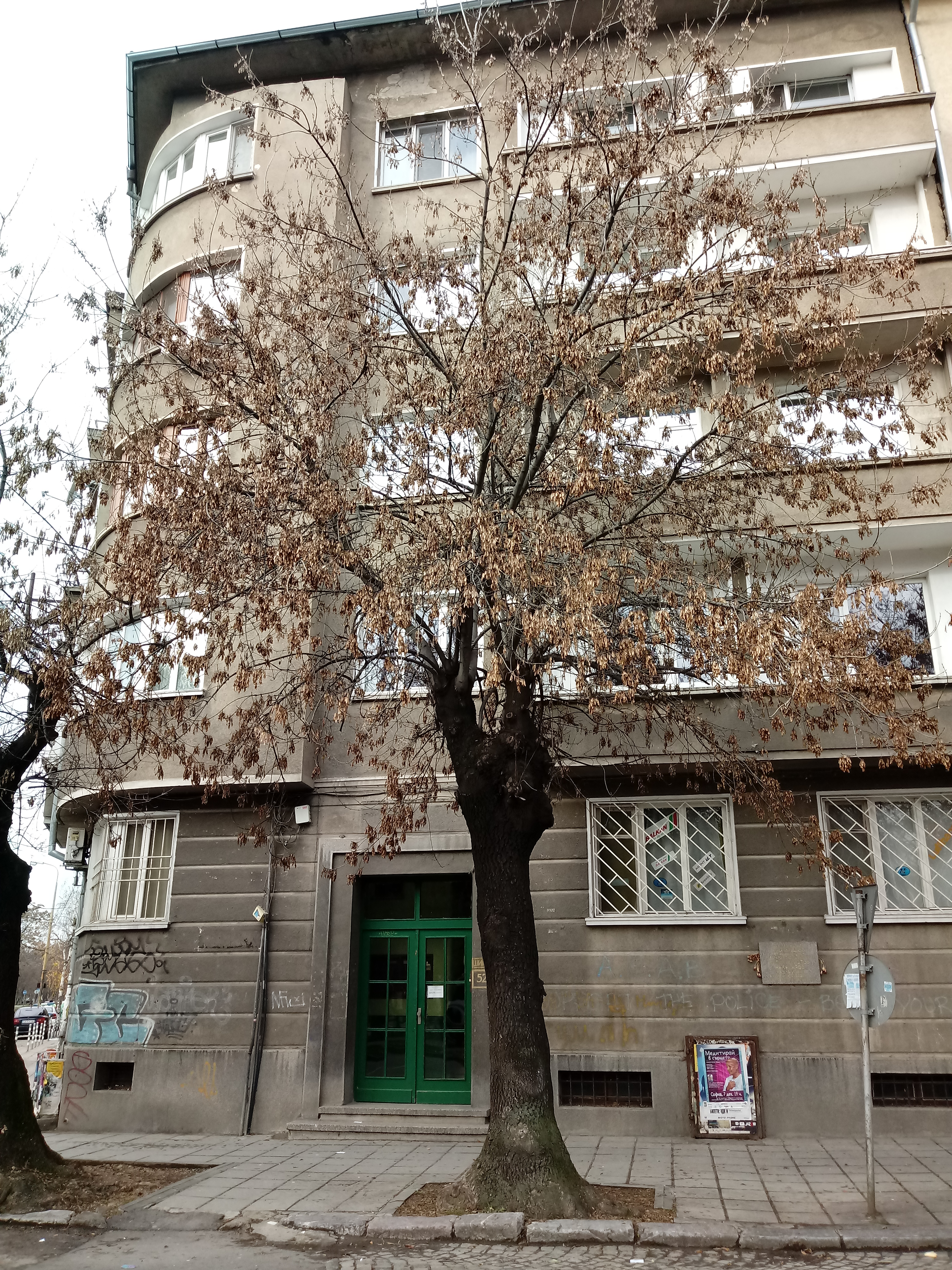 Vasil Chakalarov home with memorial plaque, 52B Shipka Str., Sofia